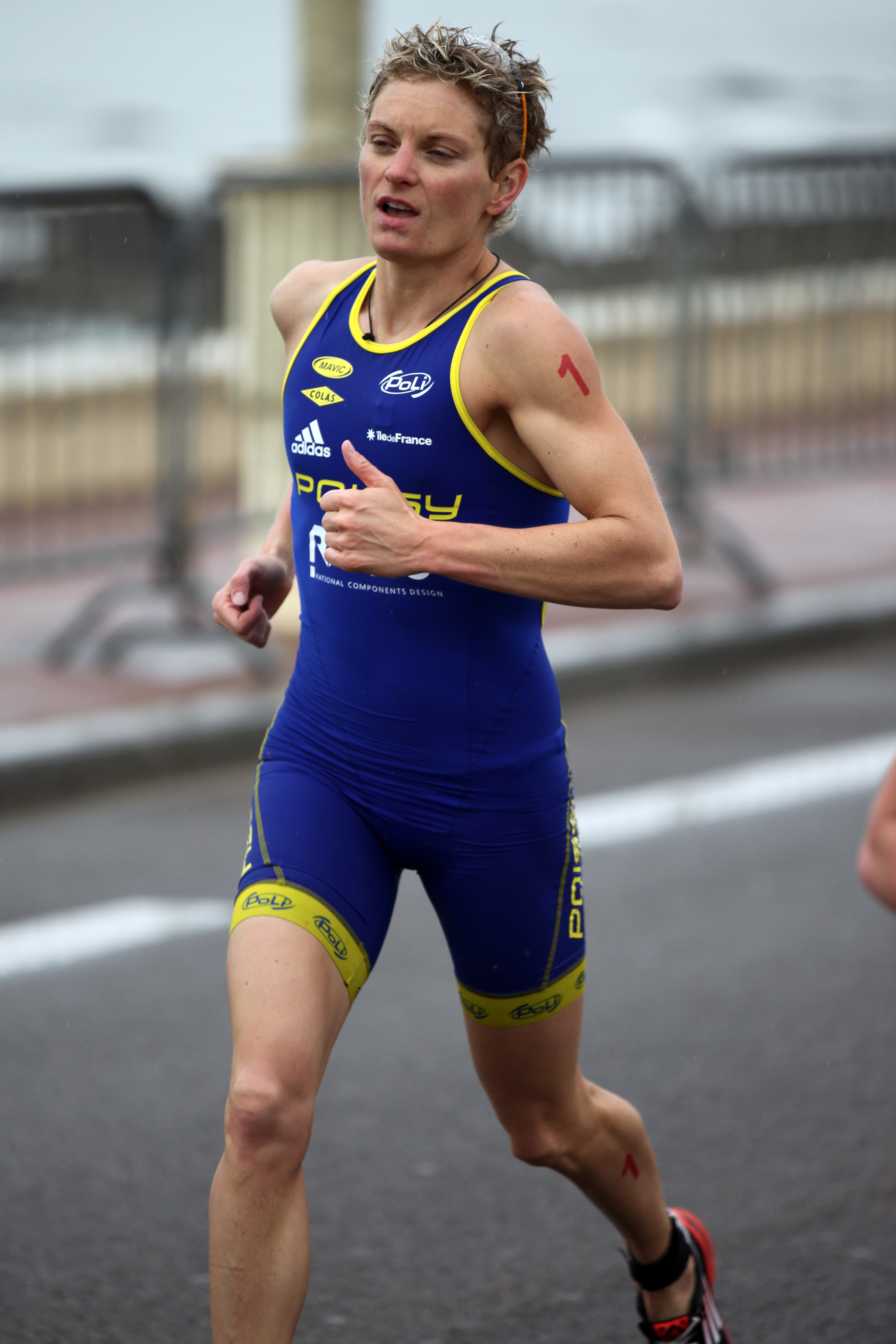 Carole PEON at the French Grand Prix de Triathlon Club Championship Series event in Les Sables d'Olonne, 2012.